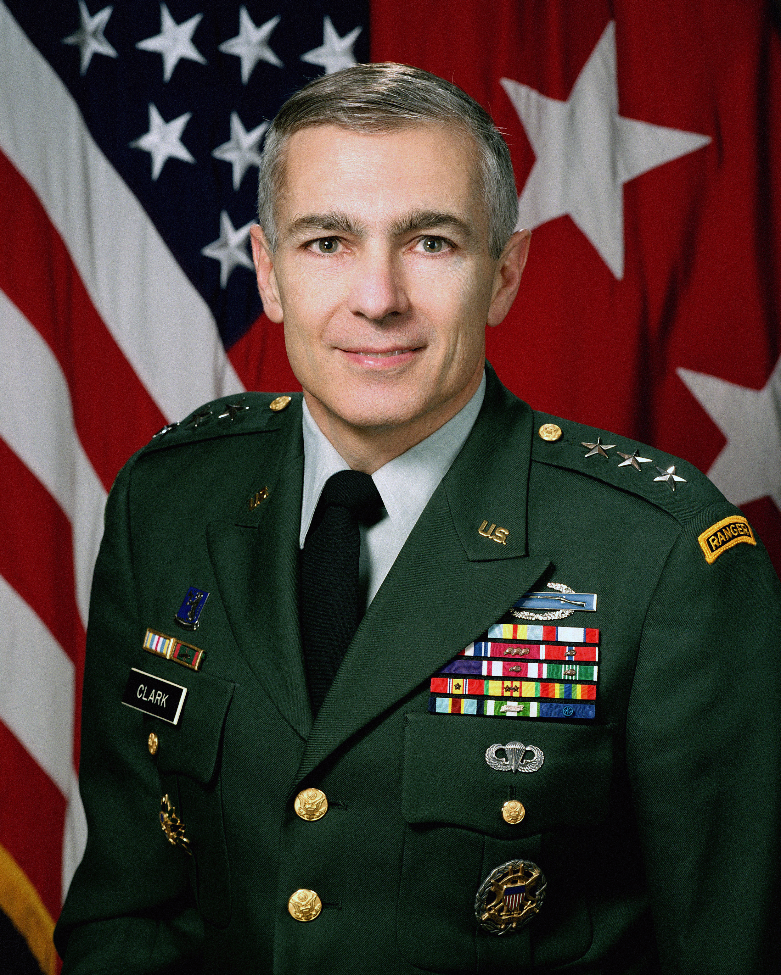 Wesley Clark as a lieutenant general.